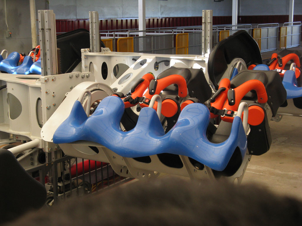 A new train on the X2 roller coaster at Six Flags Magic Mountain